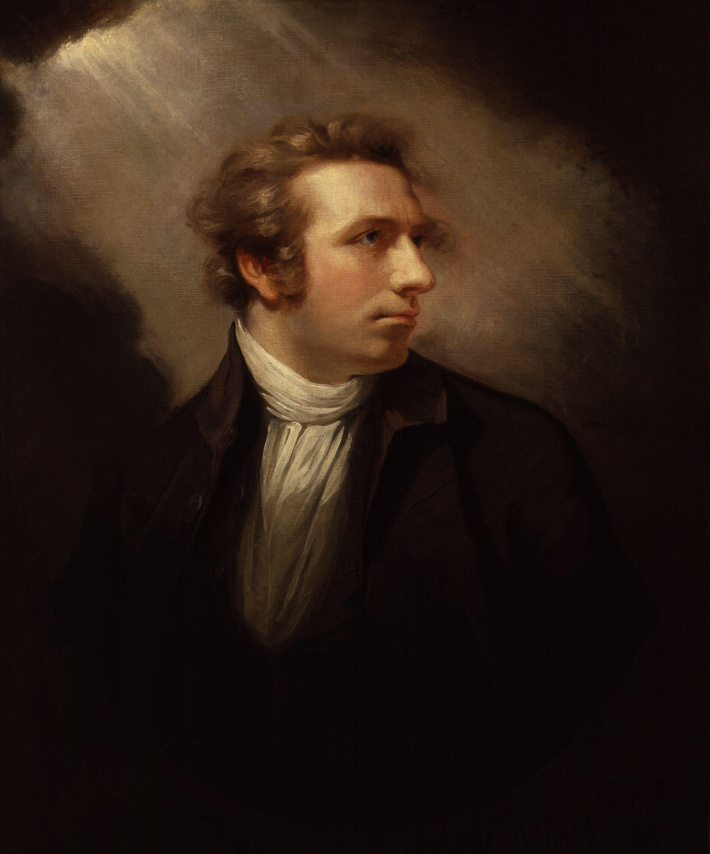 Henry Fuseli, by James Northcote (died 1831). All images in this batch have been confirmed as author died before 1939 according to the official death date listed by the NPG.